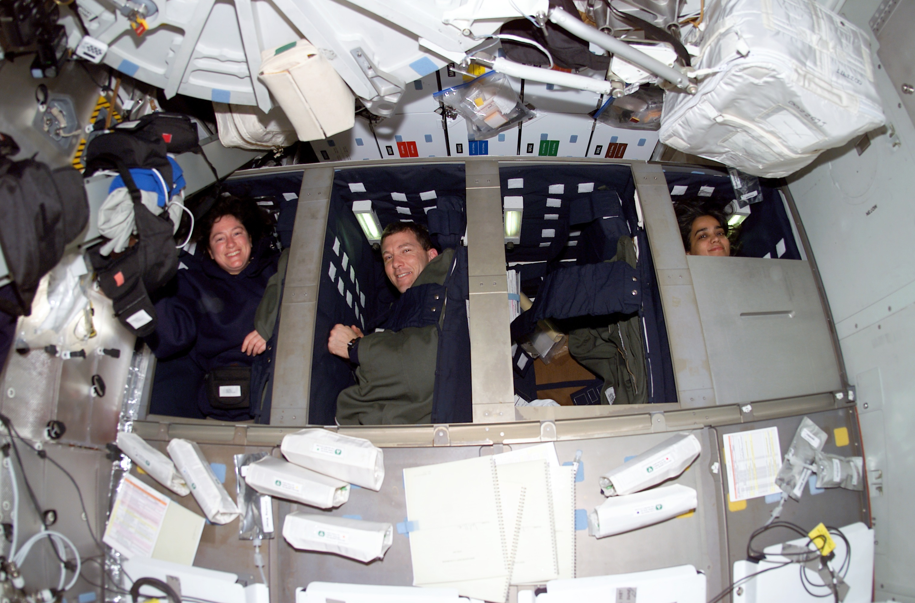 Three STS-107 crewmembers are pictured prior to their sleep shift in bunk beds on the middeck of the Space Shuttle. From the left are mission specialists Laurel B. Clark, Rick D. Husband, and Kalpana Chawla.